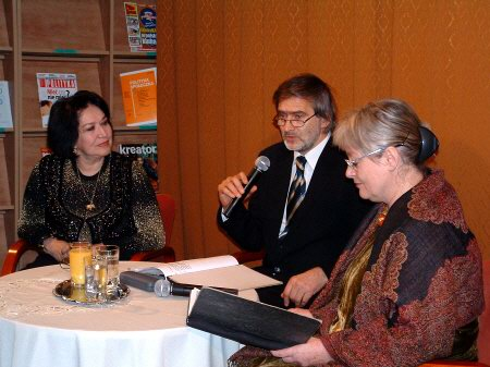 This image has been copied from the source with the permision of webmaster (and with the consent of the director of the service). The permission was granted to Stan Zurek (Zureks) via email from Mirosław Domański Olgierd Łukasiewicz (centre) and Grażyna Marzec (right)